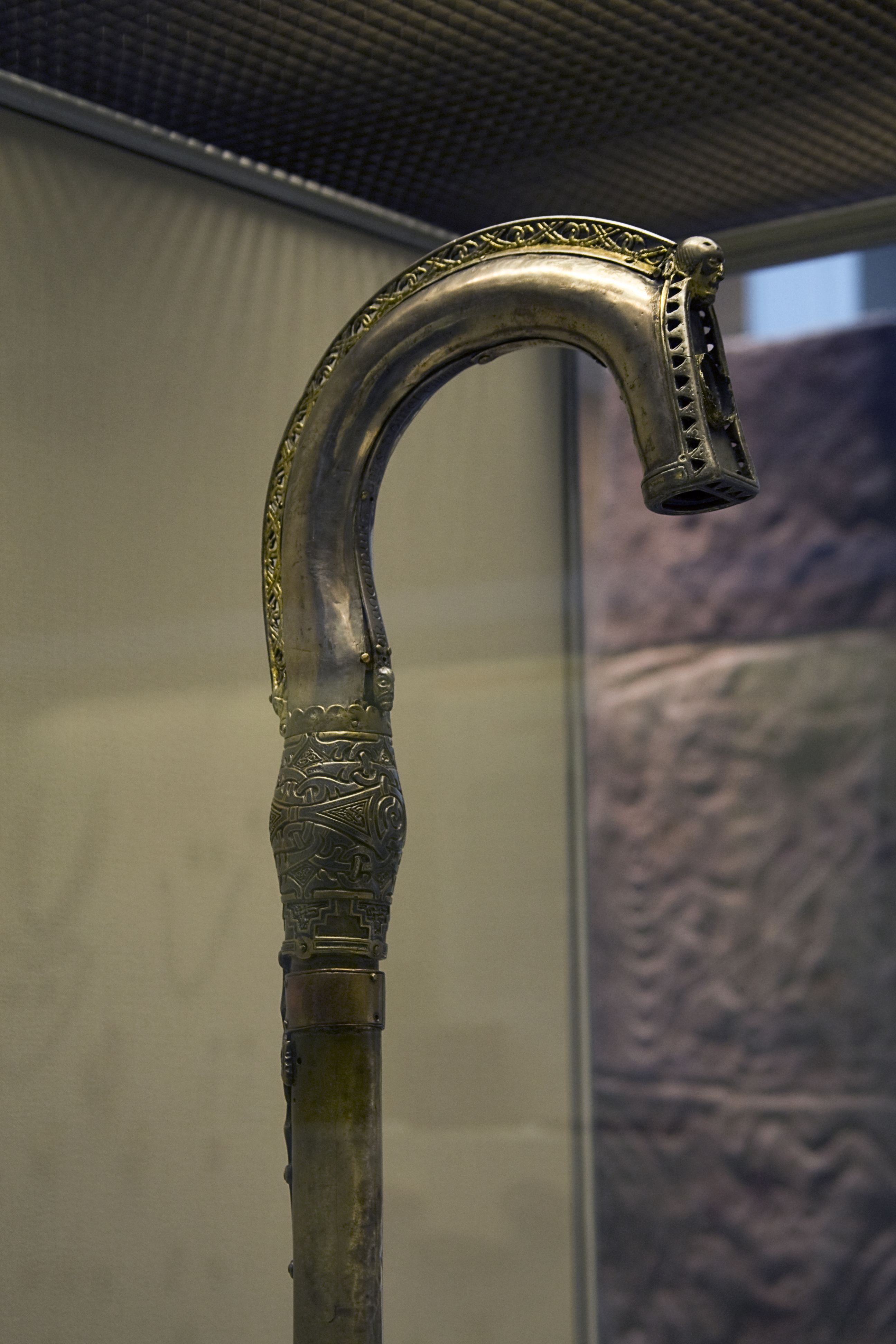 The Kells crozier of Cu Duilig and Mael Finnein, now in the British Museum. Tag on exhibit reads: "The 'Kells' crozier of Cu Duilig and Mael Finnein Irish, 9th-12th Century AD. Found in a cupboard in London in 1850. MME 1859,2-21.1" See BM database entry for more details.